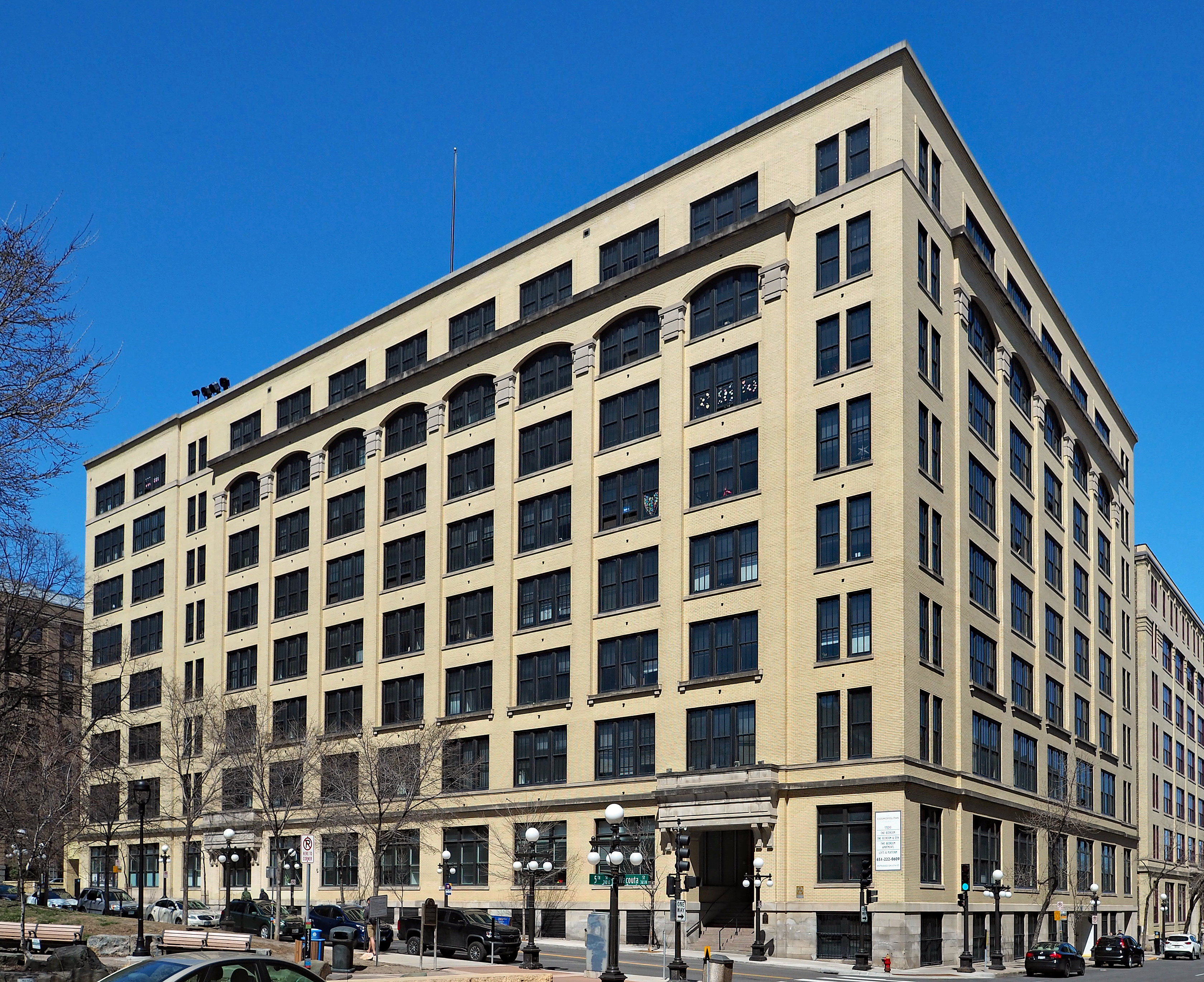 Finch, Vanslyck, and McConville Dry Goods Company Building, 366 Wacouta St, St Paul, Minnesota, USA. Viewed from the southwest.